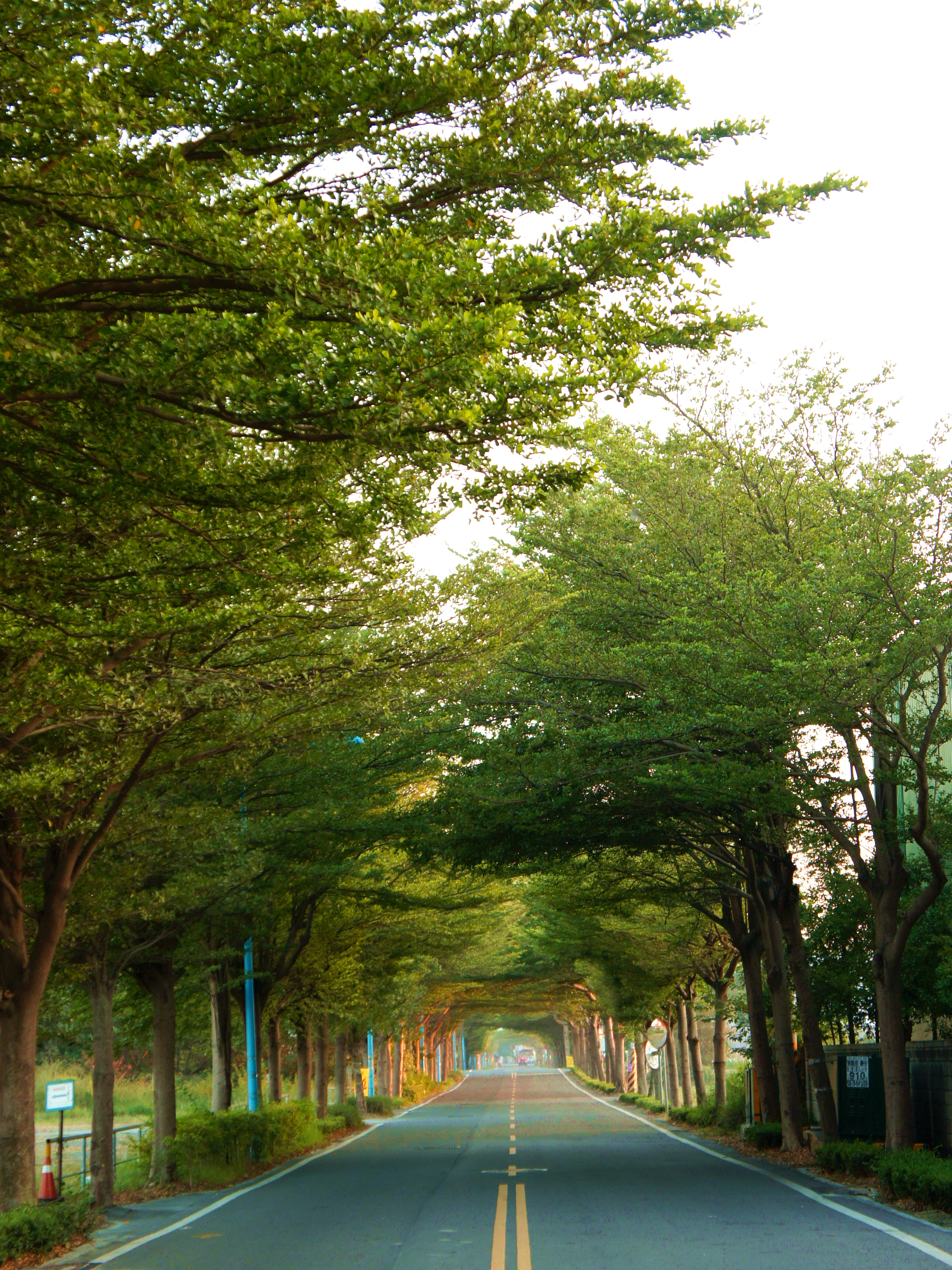 Minzhu Street leading through a tunnel of trees.